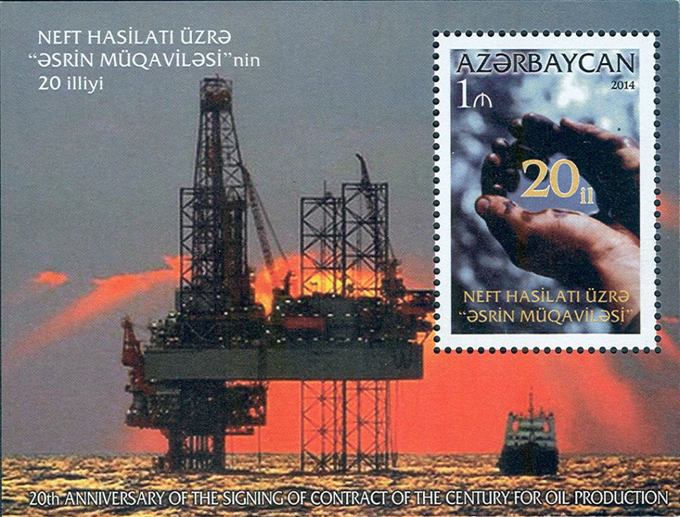 20th Ann. of the signing of “Contract of the Century”. N 1170 - 1 manat – There is pictured stationary platform used in the Caspian Sea on the souvenir sheet.